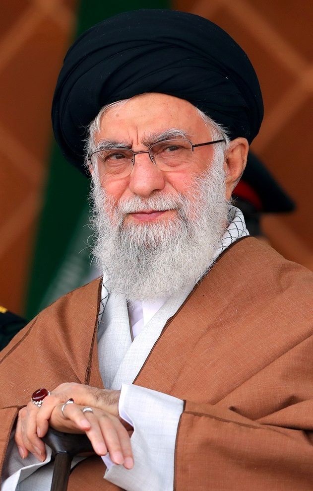 Ali Khamenei at Afsari University